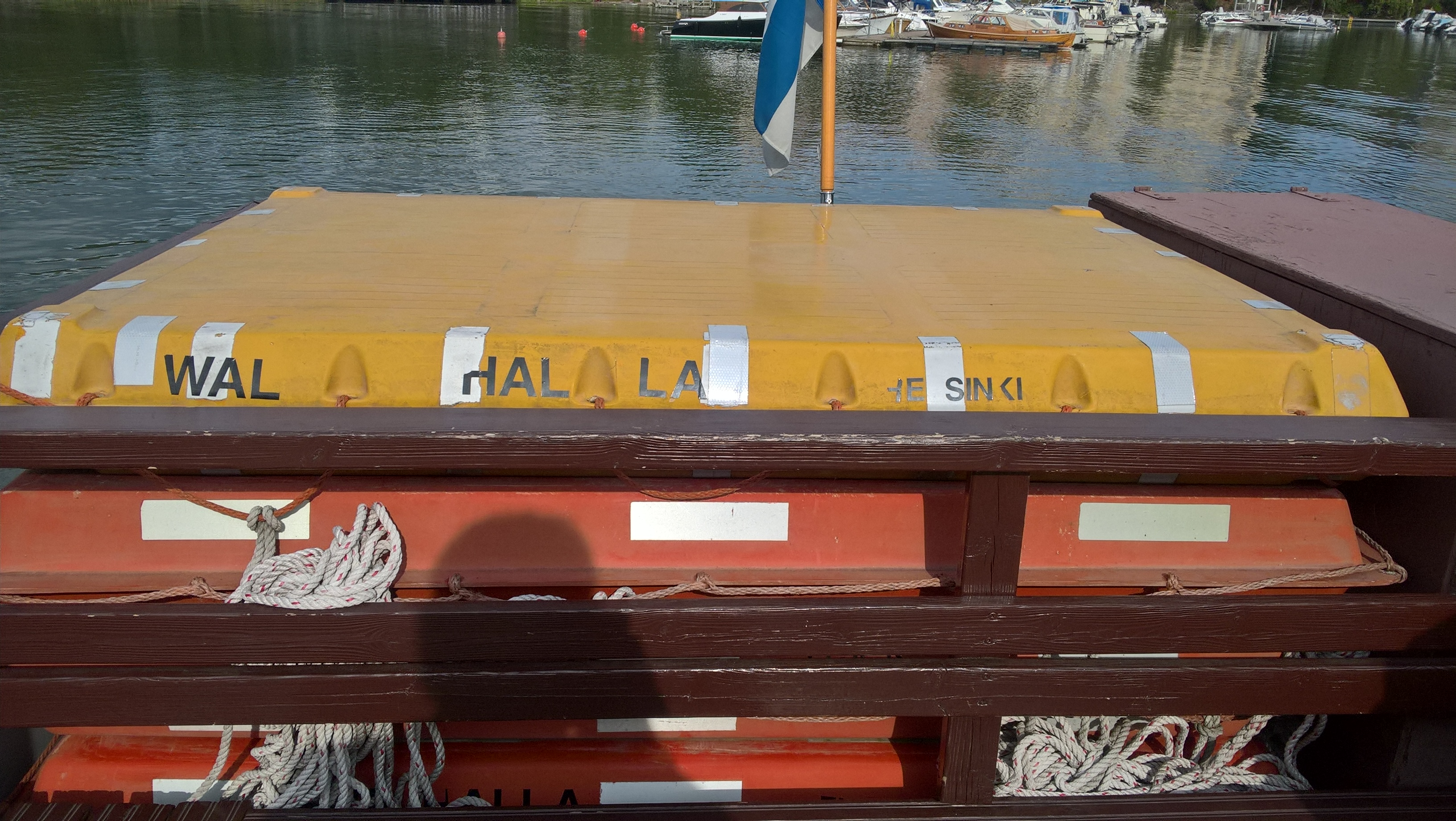 A nowadays life raft on a passenger ship